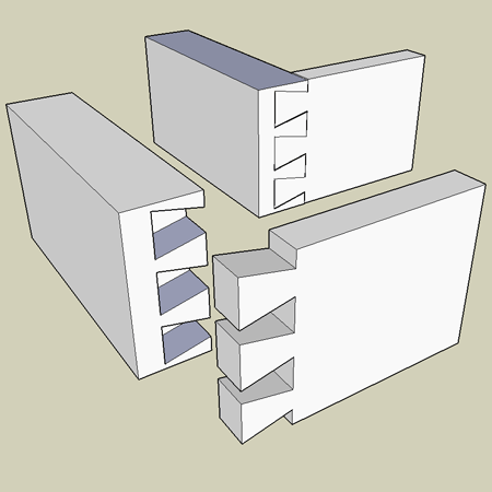 A half-blind dovetail joint. Image by SilentC